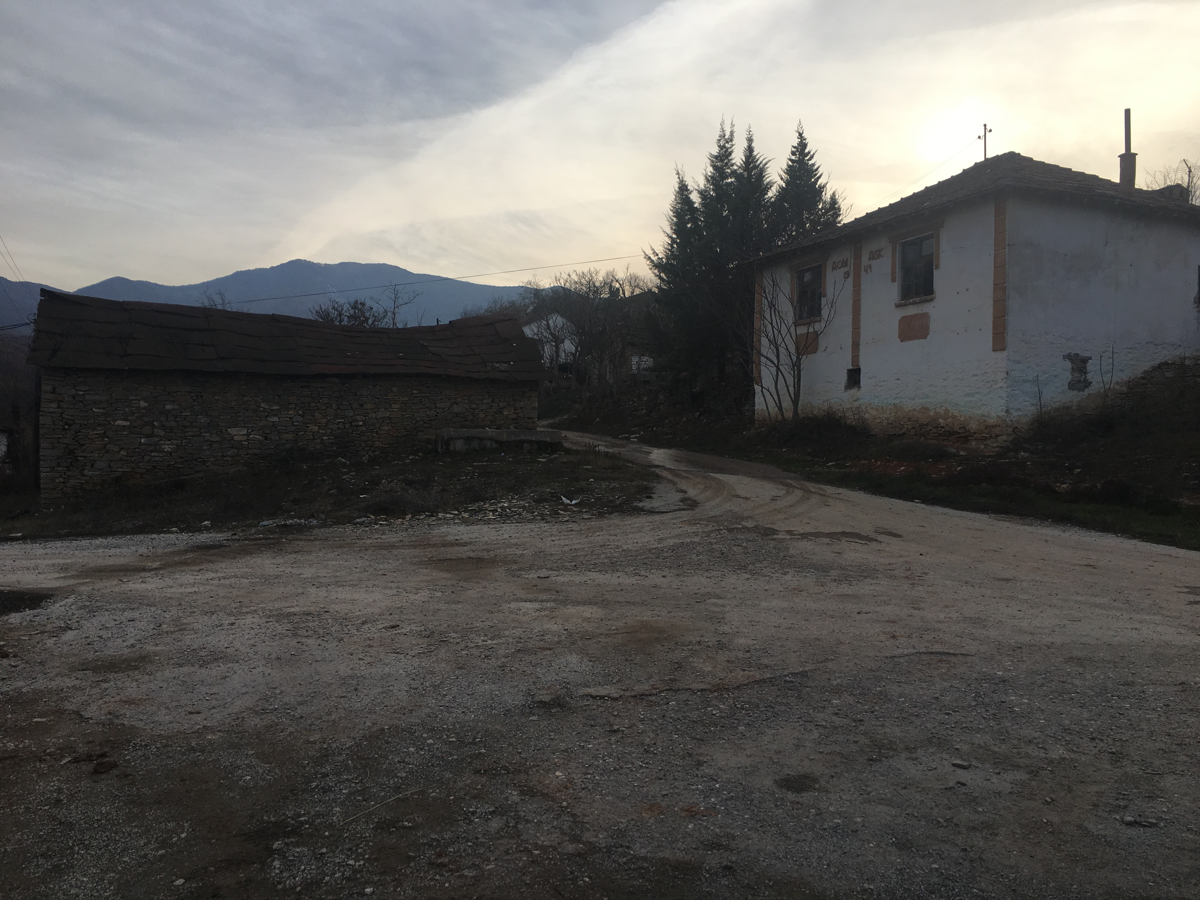 Mid-village of Raec